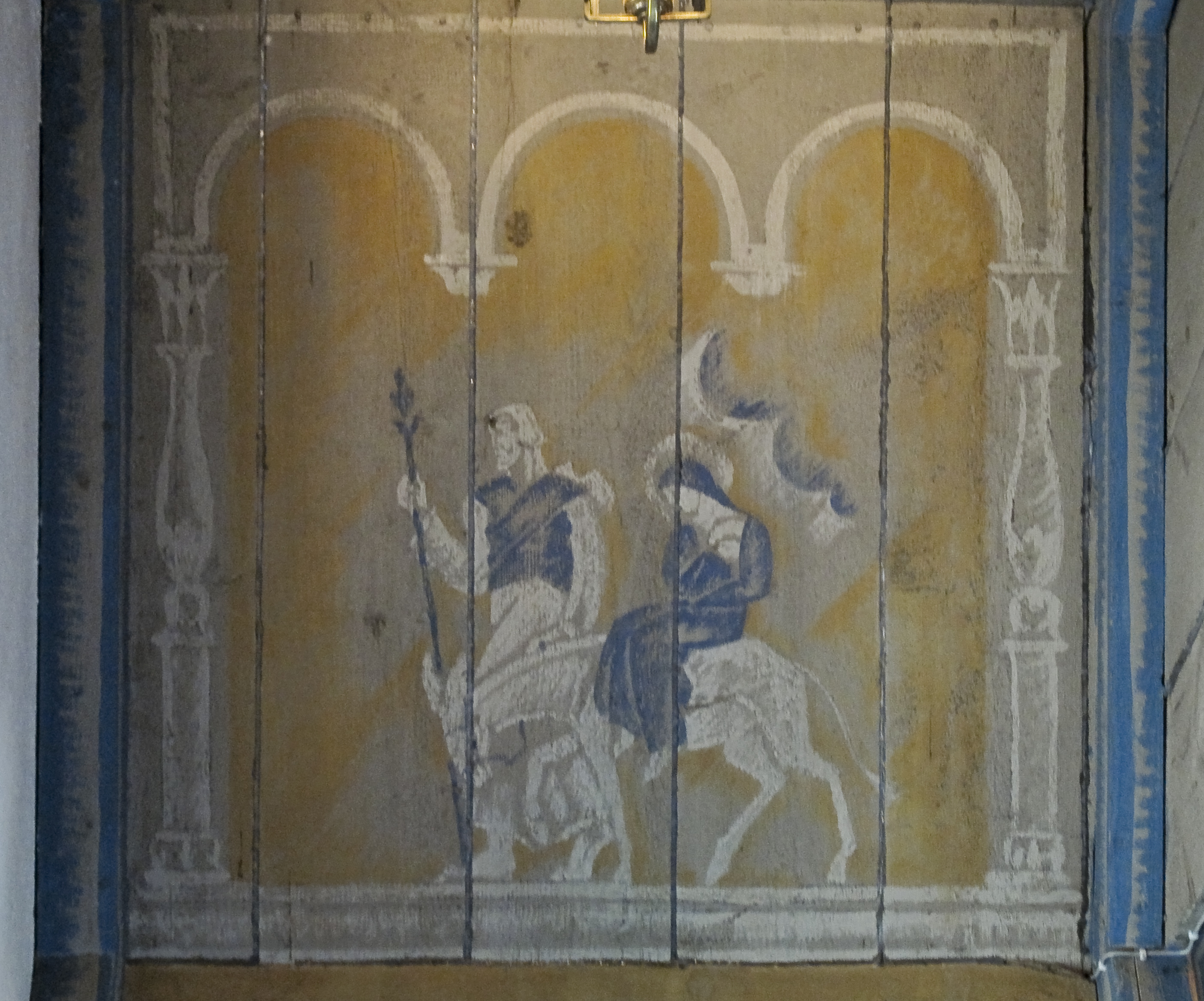 Ceiling paintings at the Saint George Church in Mariehamn, Åland, Finland. Painting.